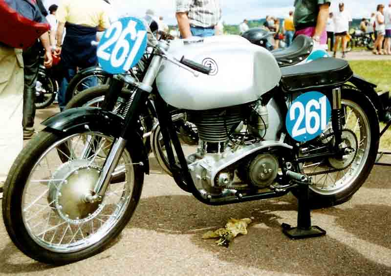 CZ Walter 350 cc 1954